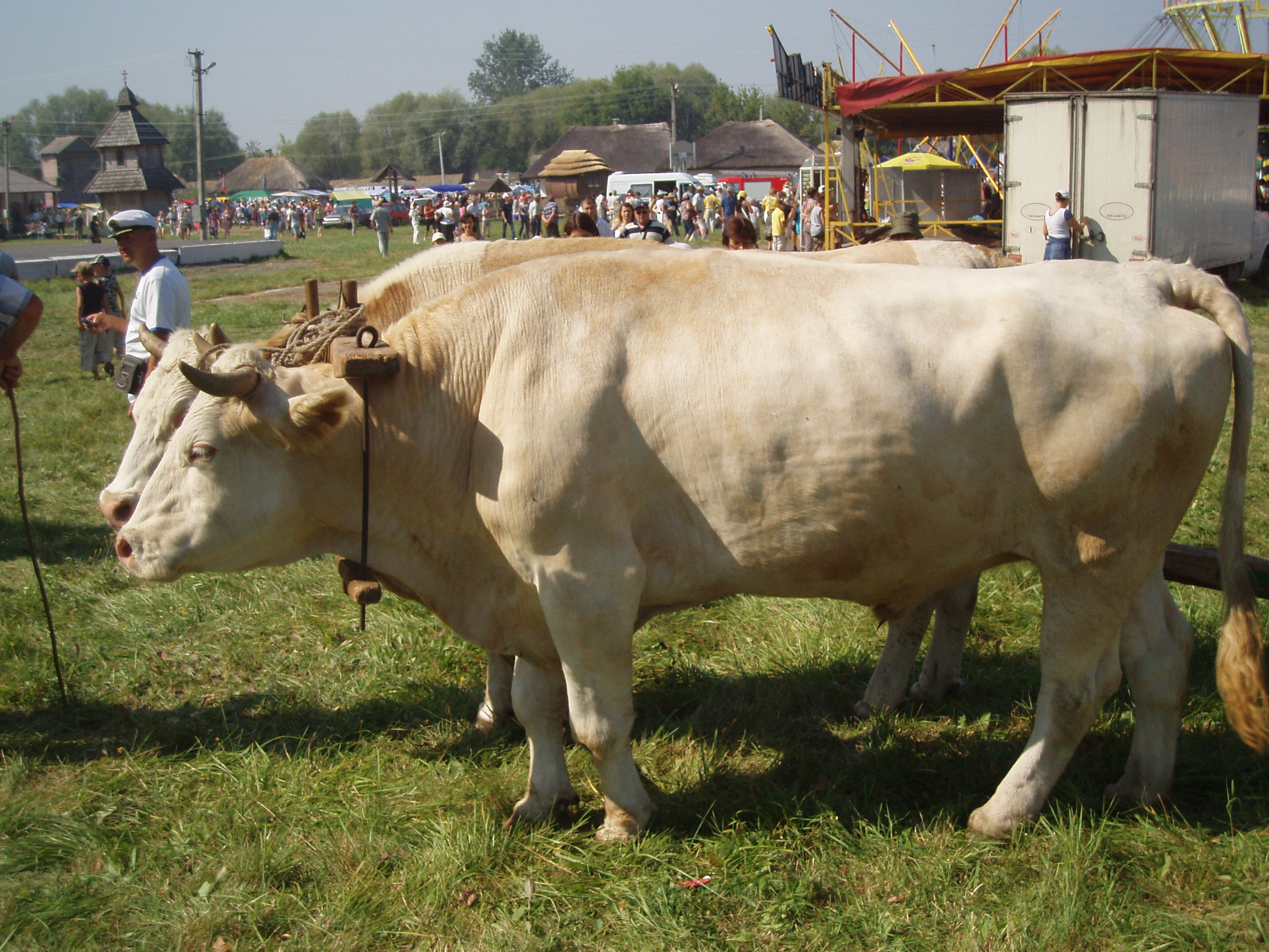 A team of oxen at the traditional Sorochyns'ky fair, Velyki Sorochyntsi, Poltava-region, Ukraine, 14th August 2008